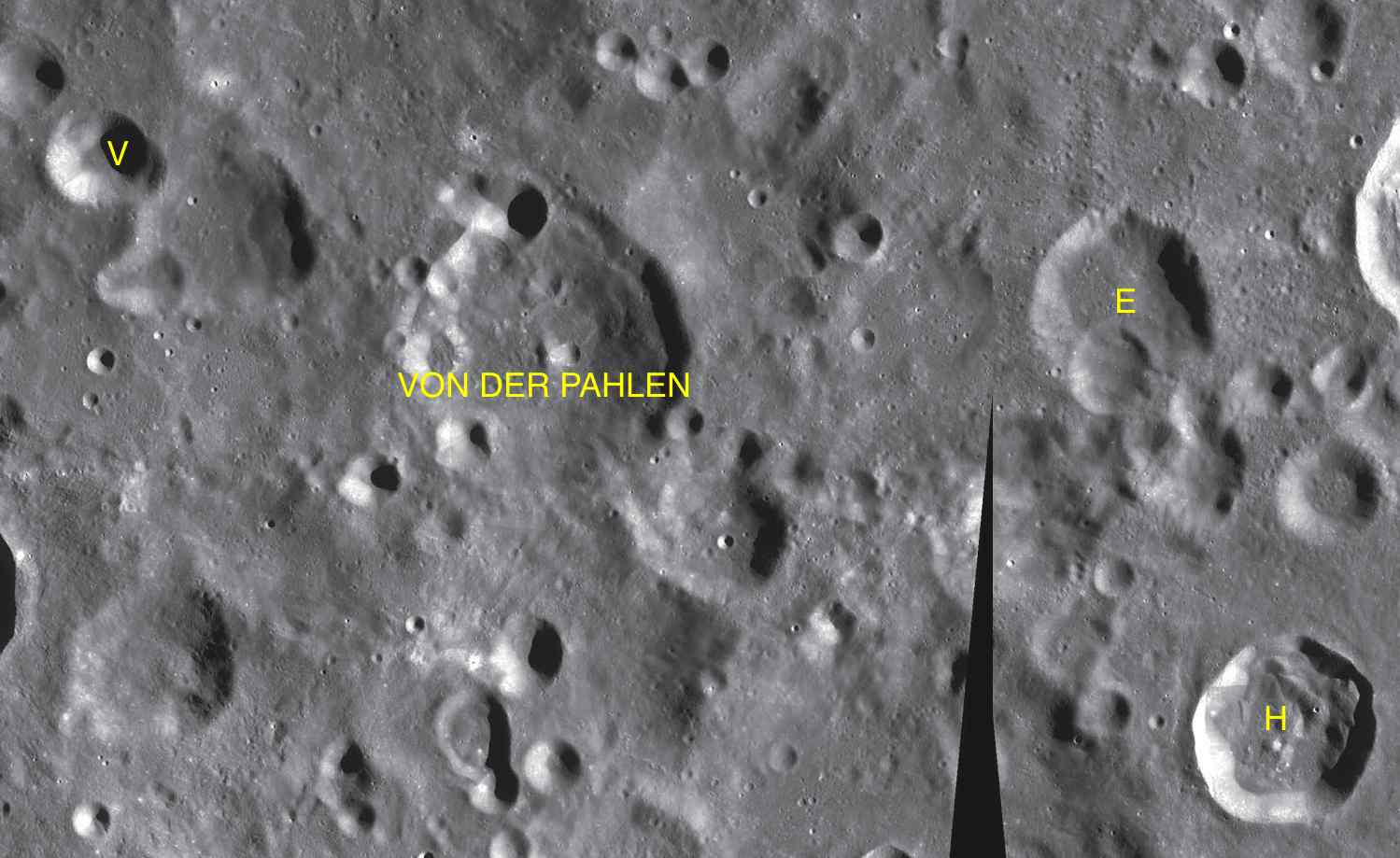 Parts of the charts LAC-106, LAC-107 used for the presentation.